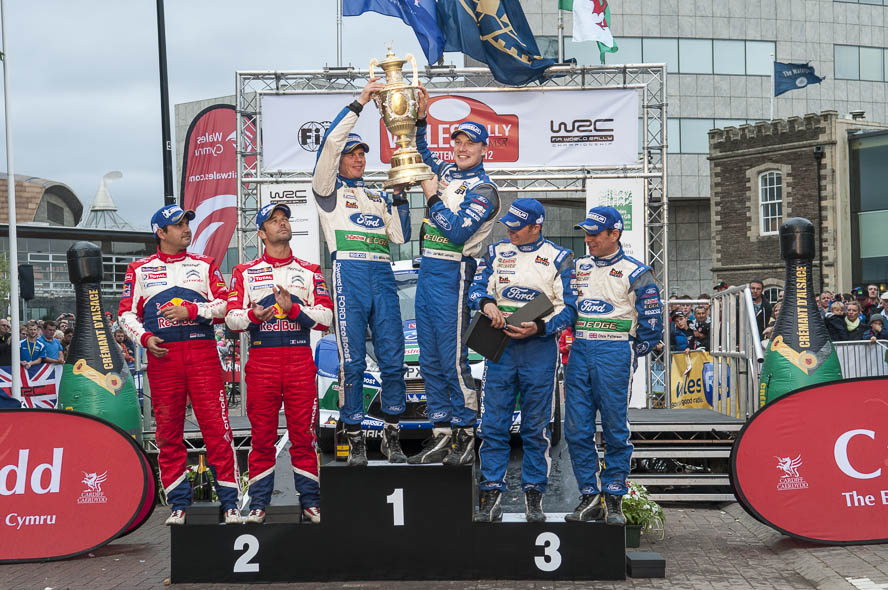 Wales Rally Great Britain 2012 Chris Patterson,Citroen DS3 WRC,Citroen Total WRT,Citroen Total World Rally Team,Daniel Elena,Ford Fiesta RS WRC,Ford WRT,Ford World Rally Team,Jari-Matti Latvala,Miikka Anttila,Motorsport,Petter Solberg,Podium,Rally,Rallye,Sebastien Loeb,Siegerehrung,WRC,Wales Rally GB, Podium